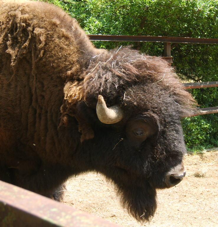 American bison at the Zoo Pécs.